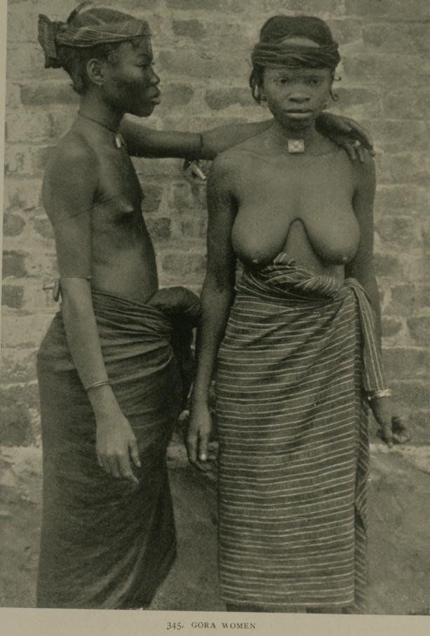 Photo of Gola Liberian woman, mistakenly titled "Gora"